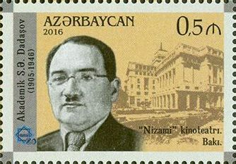 The 80th Anniversary of the Union of Architects of Azerbaijan. N 1255 - 50 qapik. There are pictured Sadiq Dadashov and cinema theatre named after “Nizami” in Baku on the stamps.